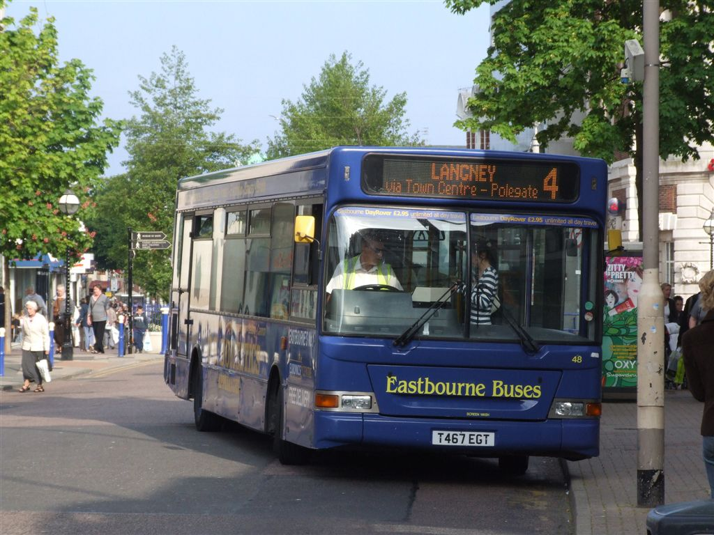 Eastbourne Buses 48 (T467 EGT), a Dennis Dart SLF/Plaxton Pointer 2 in Eastbourne on route 4.